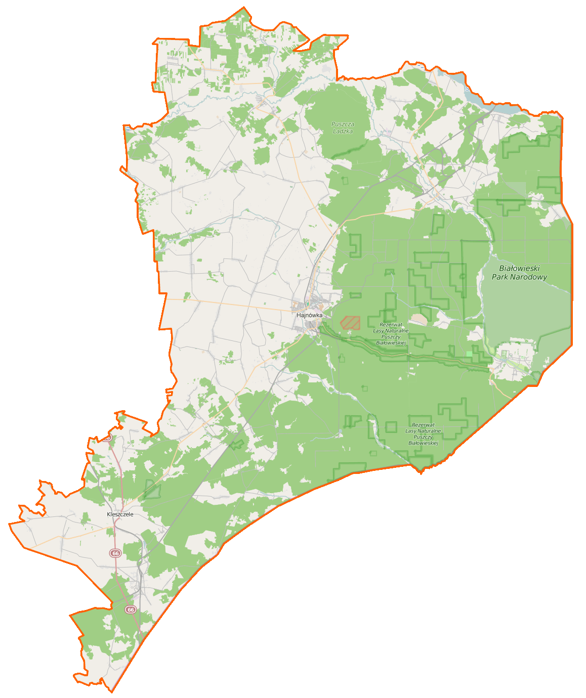 Map of Powiat hajnowski, Poland This map of Powiat hajnowski was created from OpenStreetMap project data, collected by the community. This map may be incomplete, and may contain errors. Don't rely solely on it for navigation.